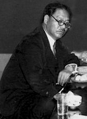 Writer Itaru Nii (1888–1951)